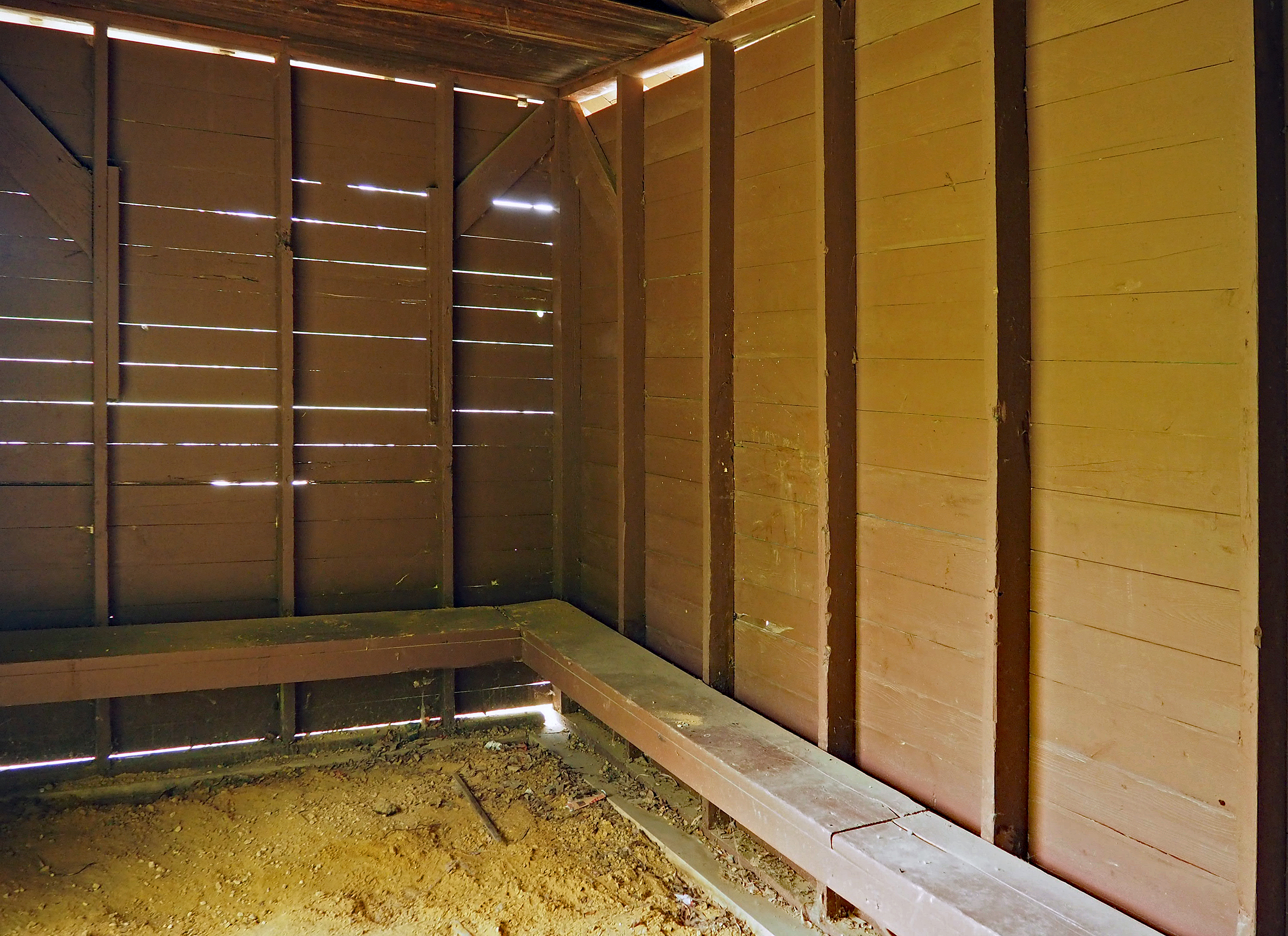 Interior view of the Orchard Gardens Depot, Kenwood Tr & 155th St, Burnsville, Minnesota, USA.